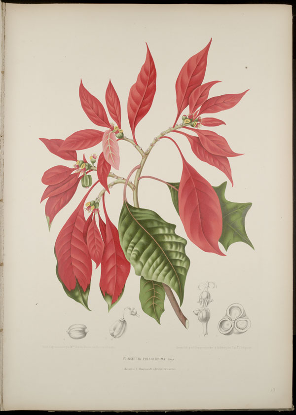 Illustration of Poinsettia Pulcherrima (Euphorbia pulcherrima Willd. ex Klotzsch)